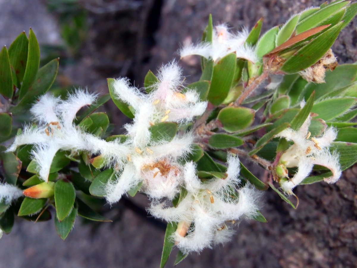 Frilly flowers Wineglass Bay lookout Freycinet National Park, possibly Pentachondra involucrata